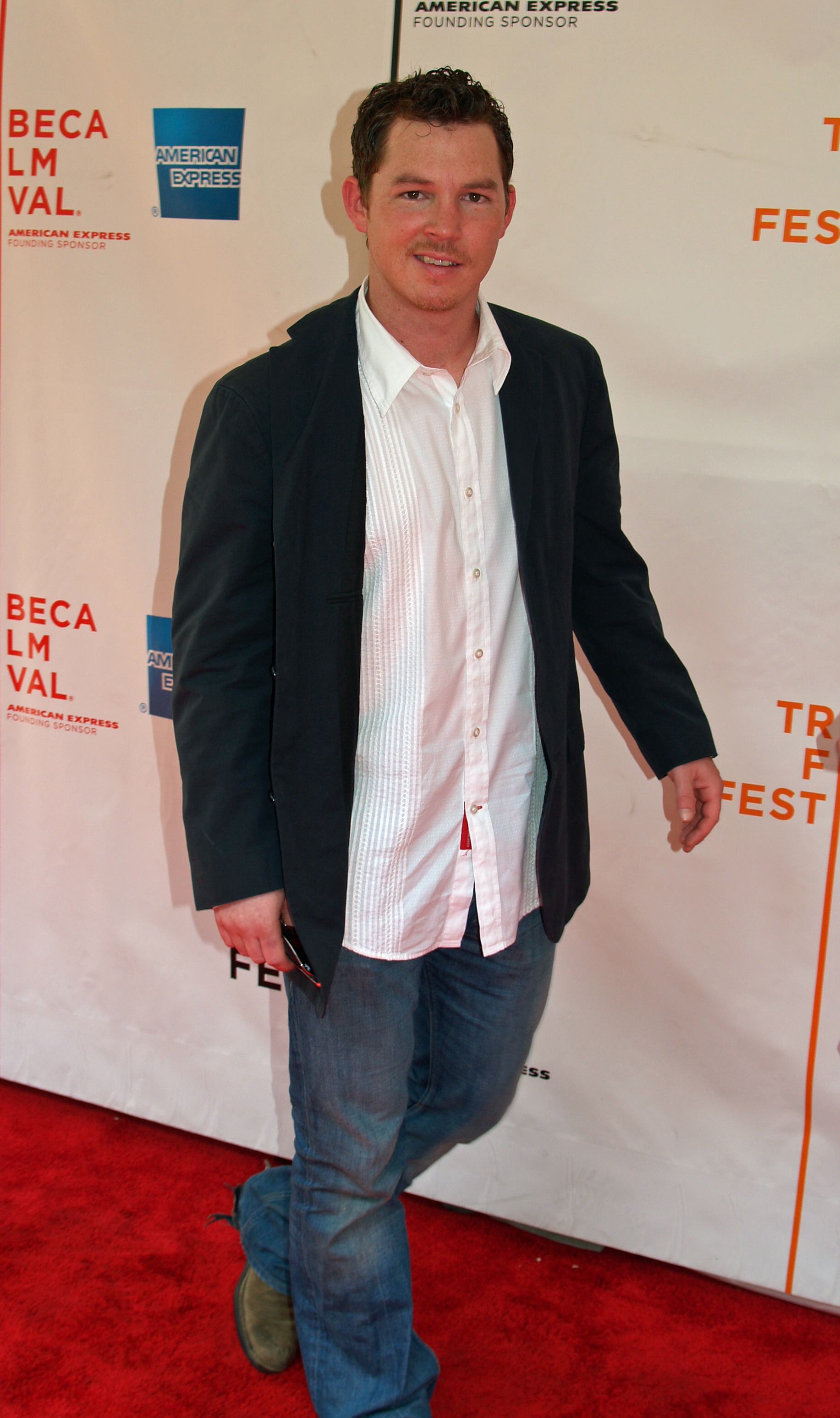 Shawn Hatosy